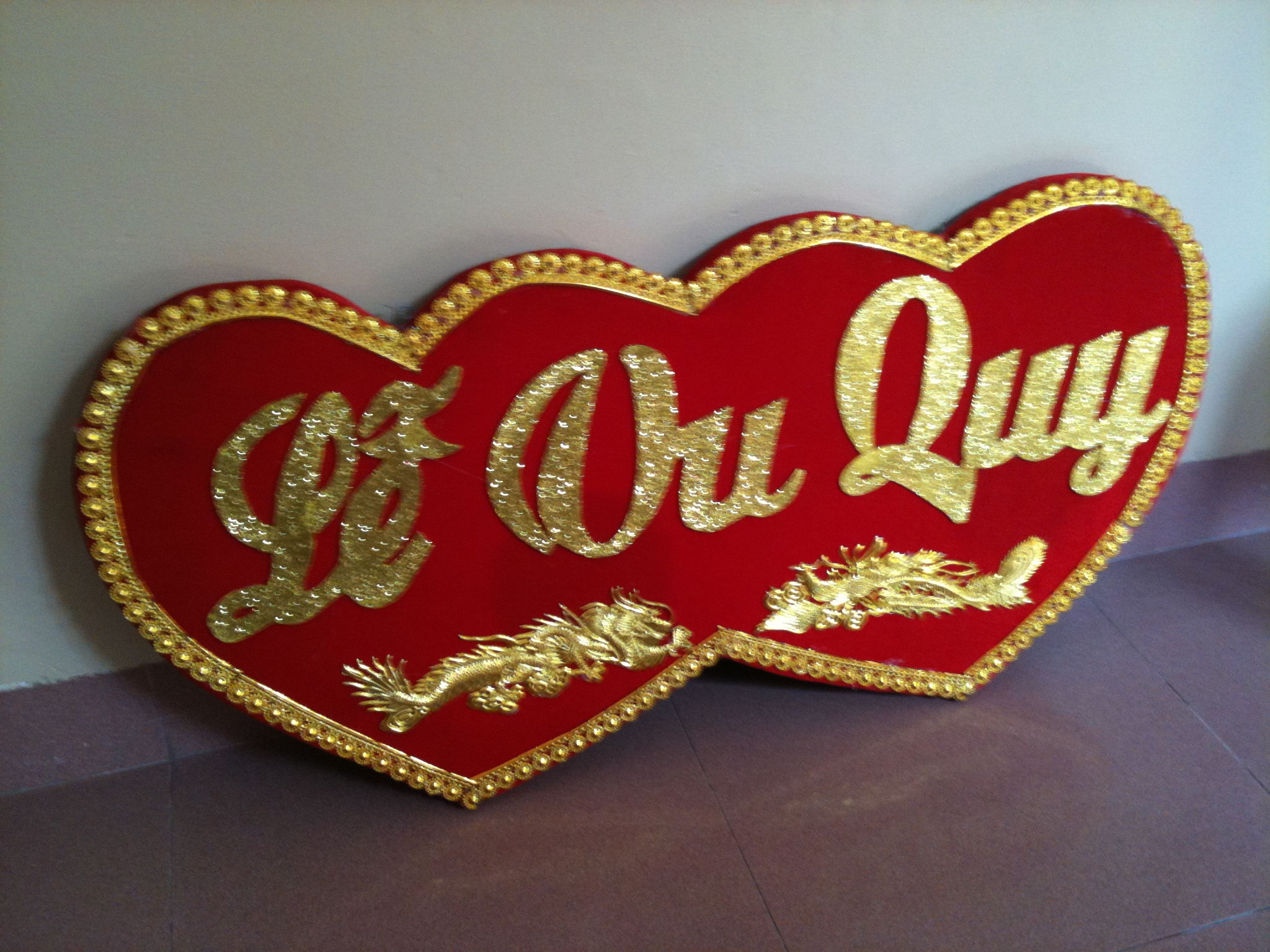 A typical decoration used at Vietnamese wedding ceremonies. "Lễ Vu Quy" means "wedding ceremony".